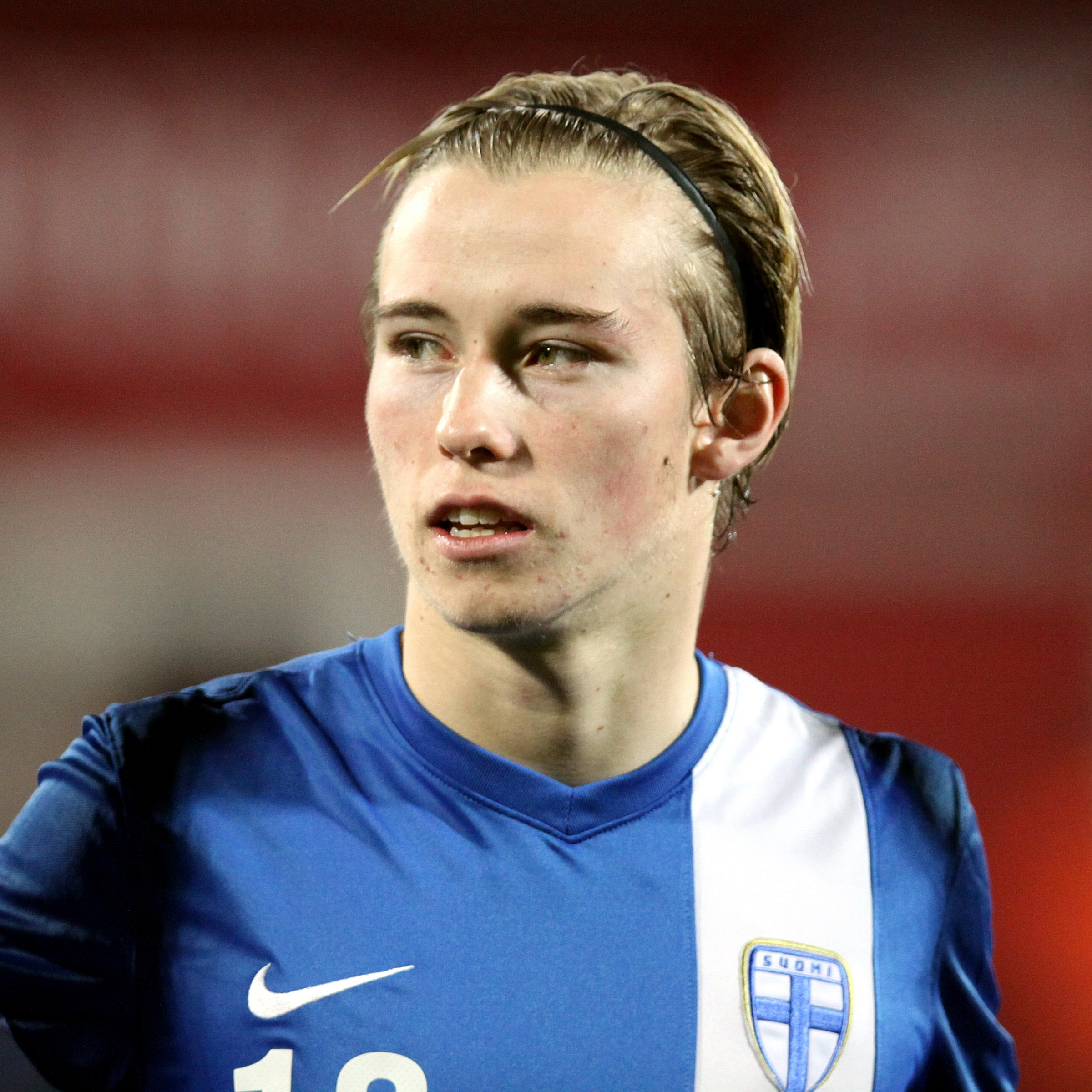 2017 UEFA European Under-21 Championship qualification – Austria U-21 (red shirts) vs. :en:Finland national under-21 football team |Finnland U-21 (blue shirts) 2-0 (0-0) – 2015-11-13 in Vienna, Austria Arena – The photo shows Fredrik Lassas.